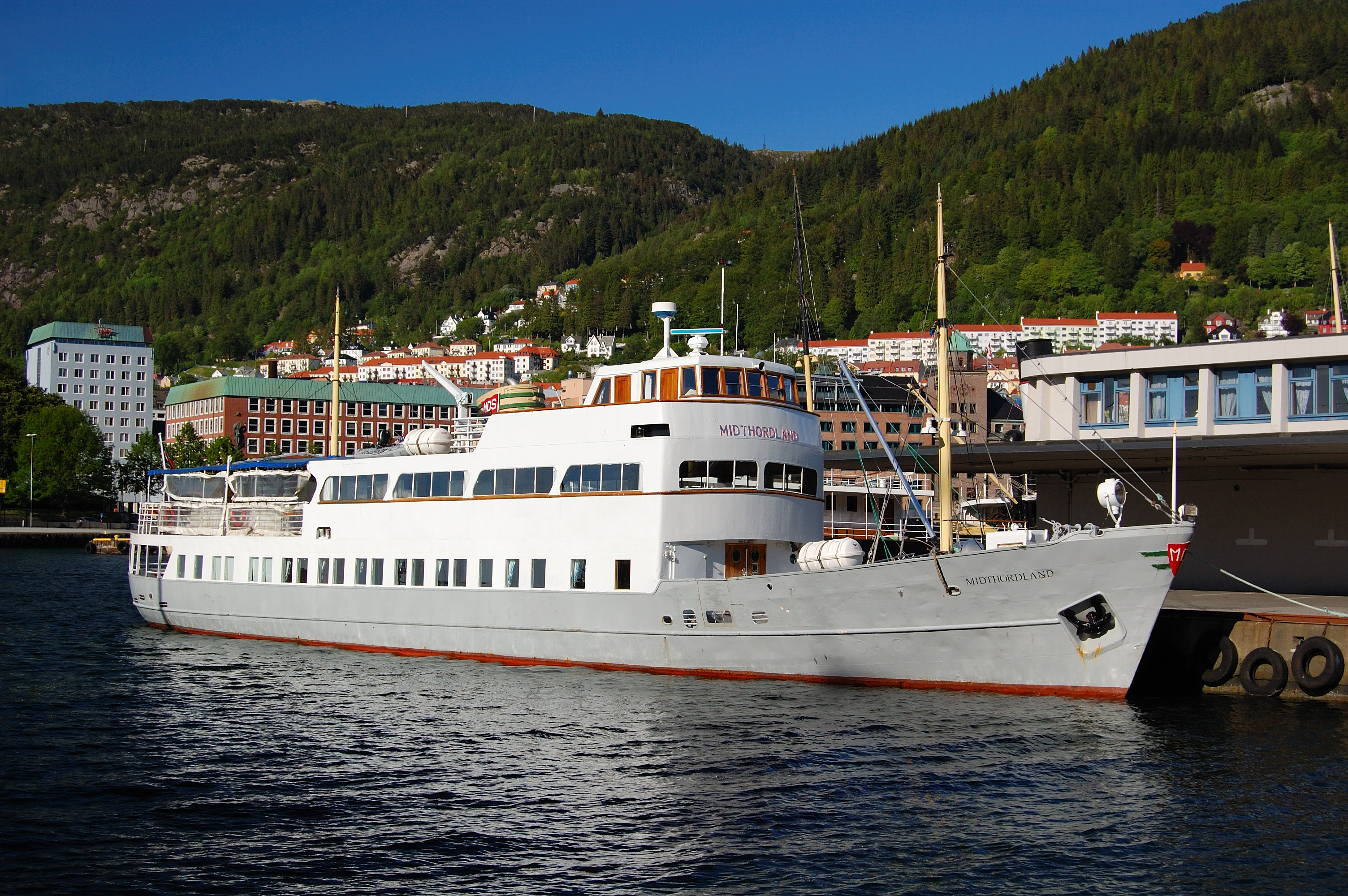 Norwegian passenger ship Midthordland (IMO 5234539) in Bergen.